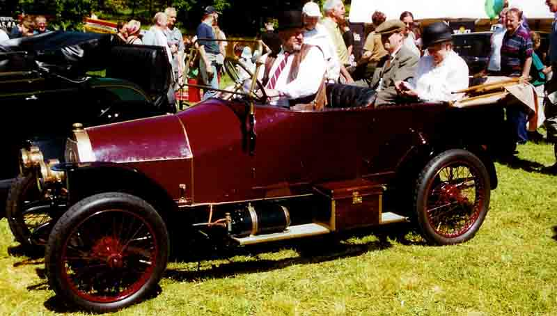 1911 Mathis Baby-2, 6/16 PS, Doppelphaeton